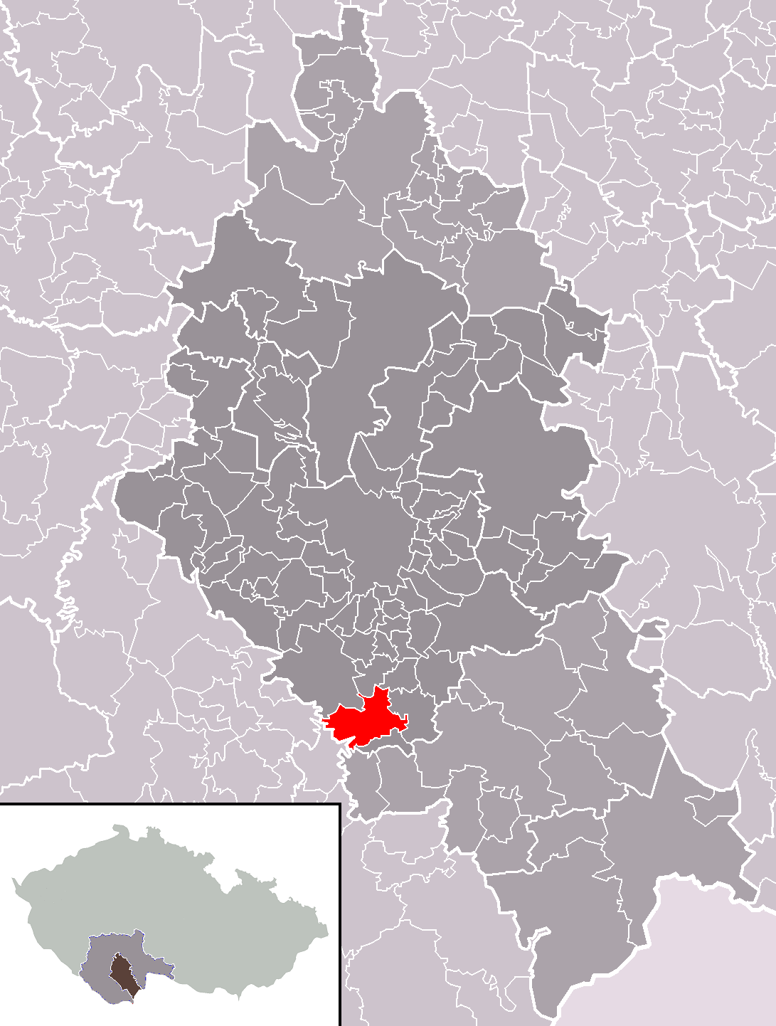 Location of Římov municipality within České Budějovice District and administrative area of České Budějovice as a Municipality with Extended Competence.